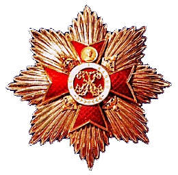 Grand Cross of the Order of Kapiolani Source: [1] Author: Ianwatts